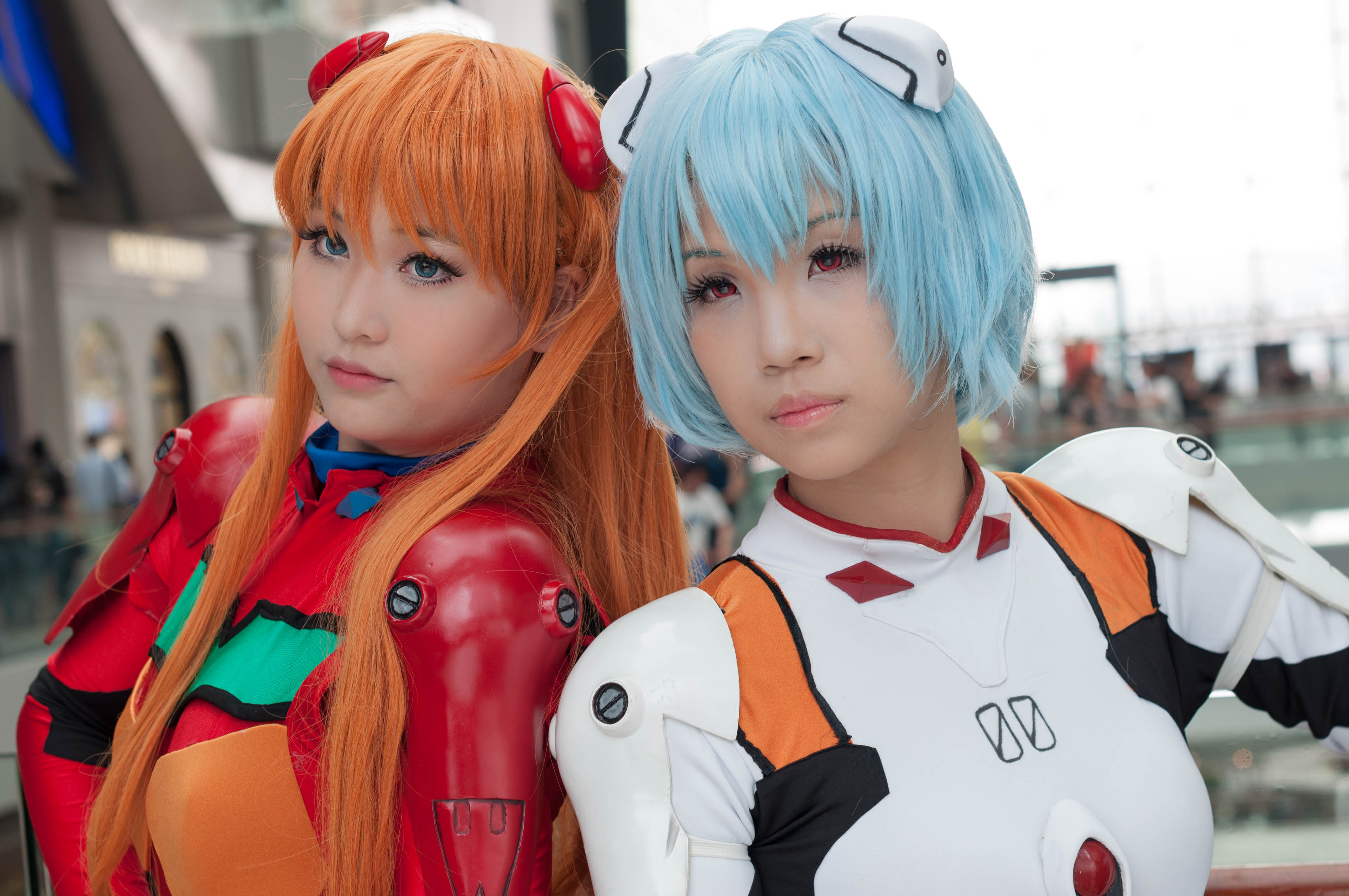 中文（台灣）: Singapore Toy, Game & Comic Convention 2015，戰鬥服《新世紀福音戰士》惣流·明日香·蘭格雷、綾波零cosplayer。